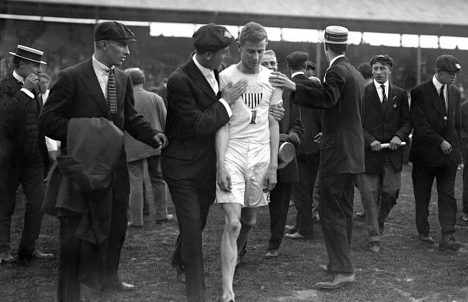 US Sprinter John Carpenter 1908 Olympics, on the track for the 400 meter event, learning of his disqualification.